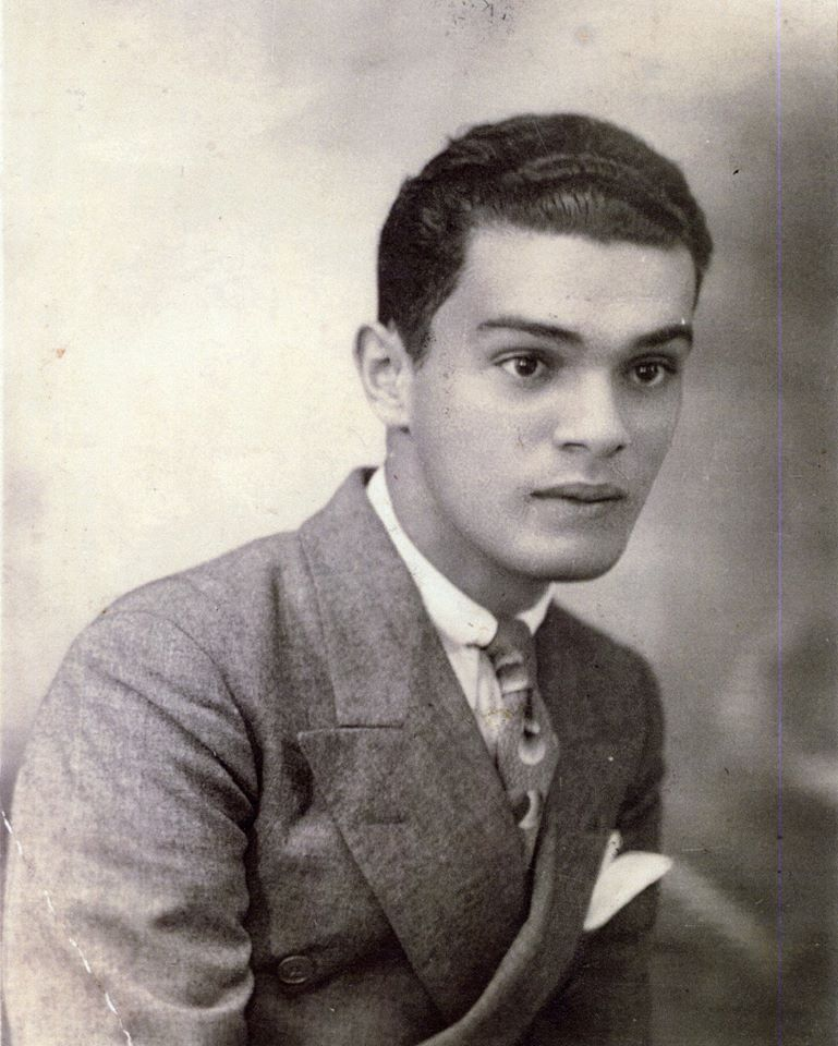 foto de Dario Suro